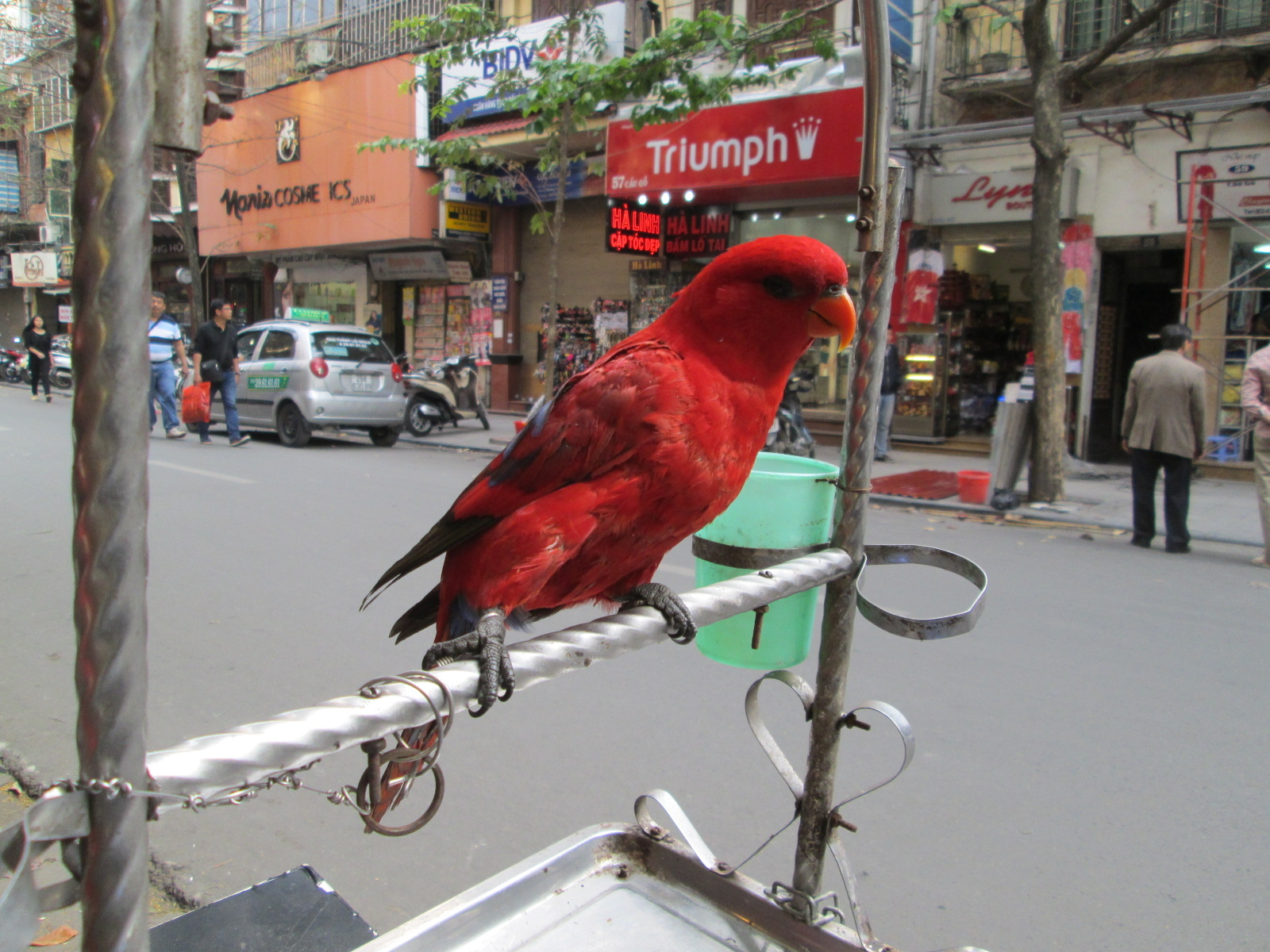 A beautiful lone parrot on Cau Go street footpath.The noisiest bird on the street.